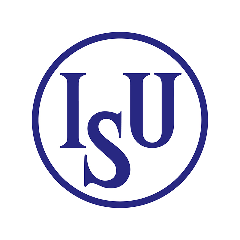 International Skating Union